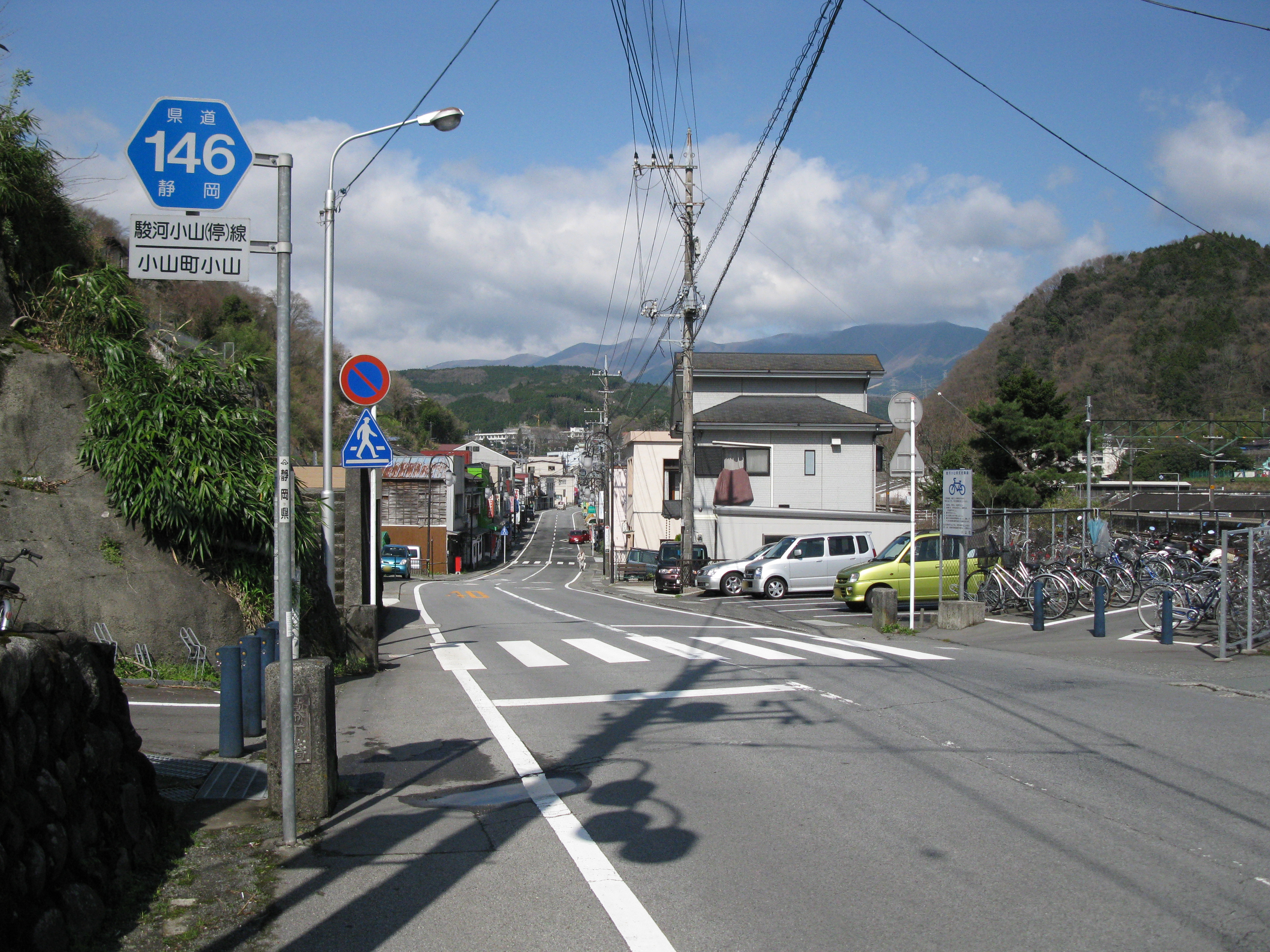 Shizuoka prefectural road no.146 0km point (at Oyama, Shizuoka)